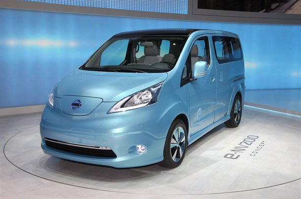 There was plenty of high-end metal being unveiled at the Geneva Motor Show, but the likes of the one-off Lamborghini Aventador J, the Ferrari F12 Berlinetta, and the Maserati GranTurismo Sport, and others weren’t the real show stoppers... there were plenty of the big-end players downsizing: Mercedes-Benz A-Class, Audi A3, Volvo V40, and much more. Here’s what flicked our switch. You can check out more on the 2012 Geneva Motor Show here at; as well as